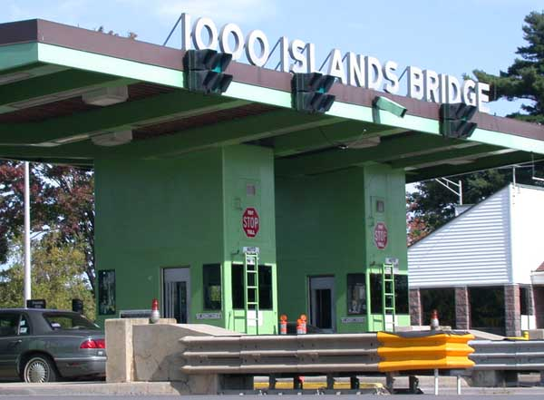 Toll plaza on the U.S. side of the en:1000 Islands Bridge in northern New York (taken Sept. 24, 2004) © 2004 Matthew Trump